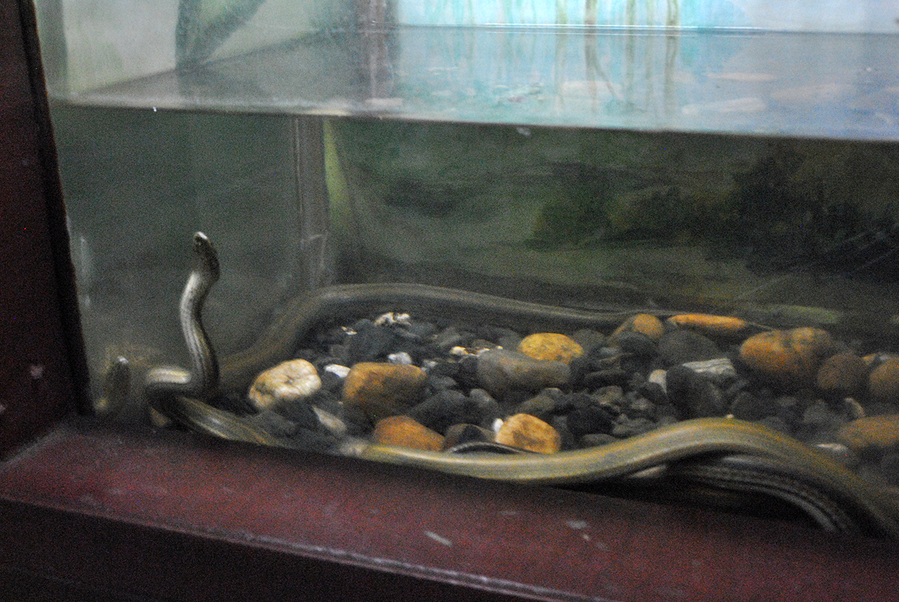 Erpeton tentaculatum in Pata Zoo